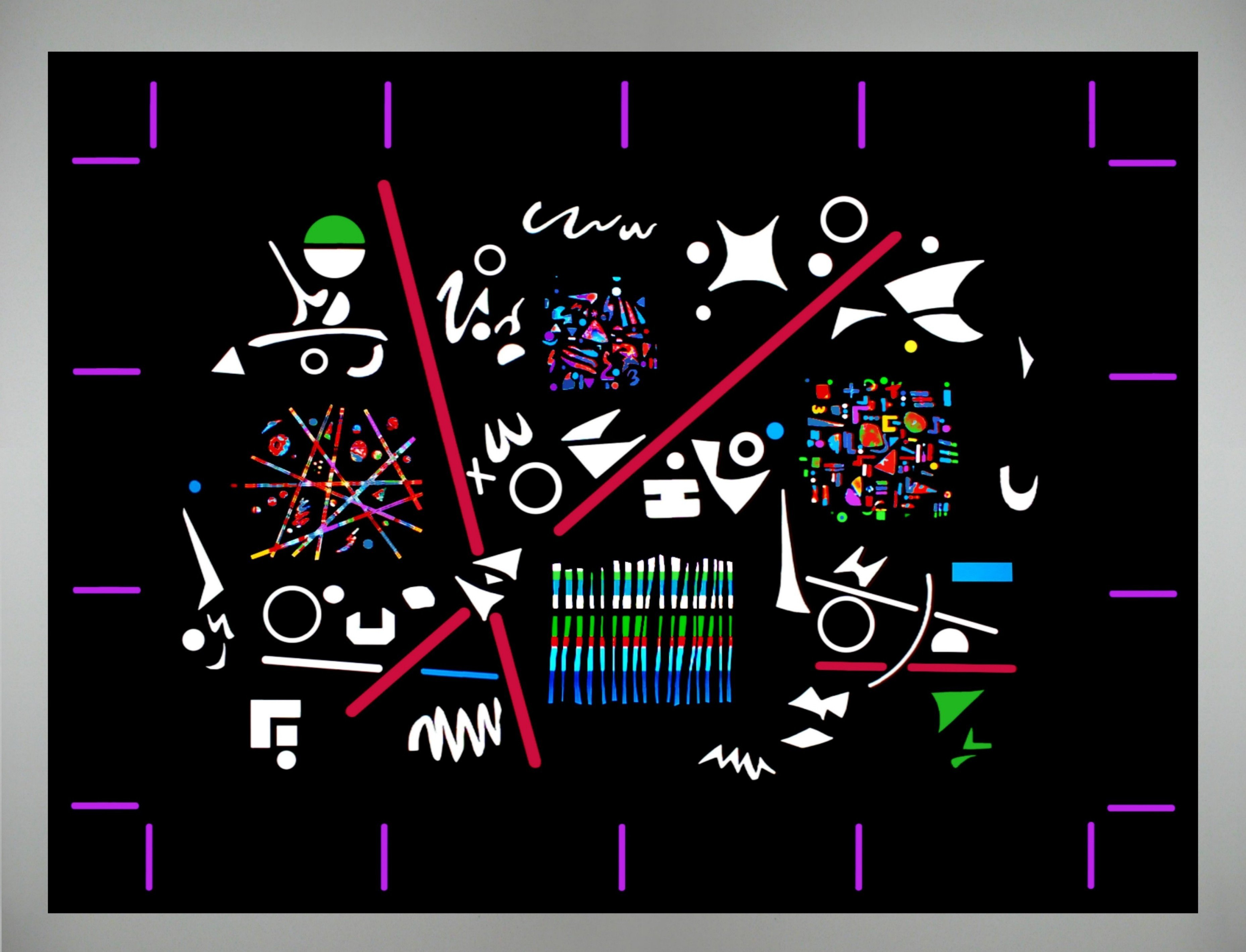 Photo of Mel Tanner's Transworld Wall Sculpture